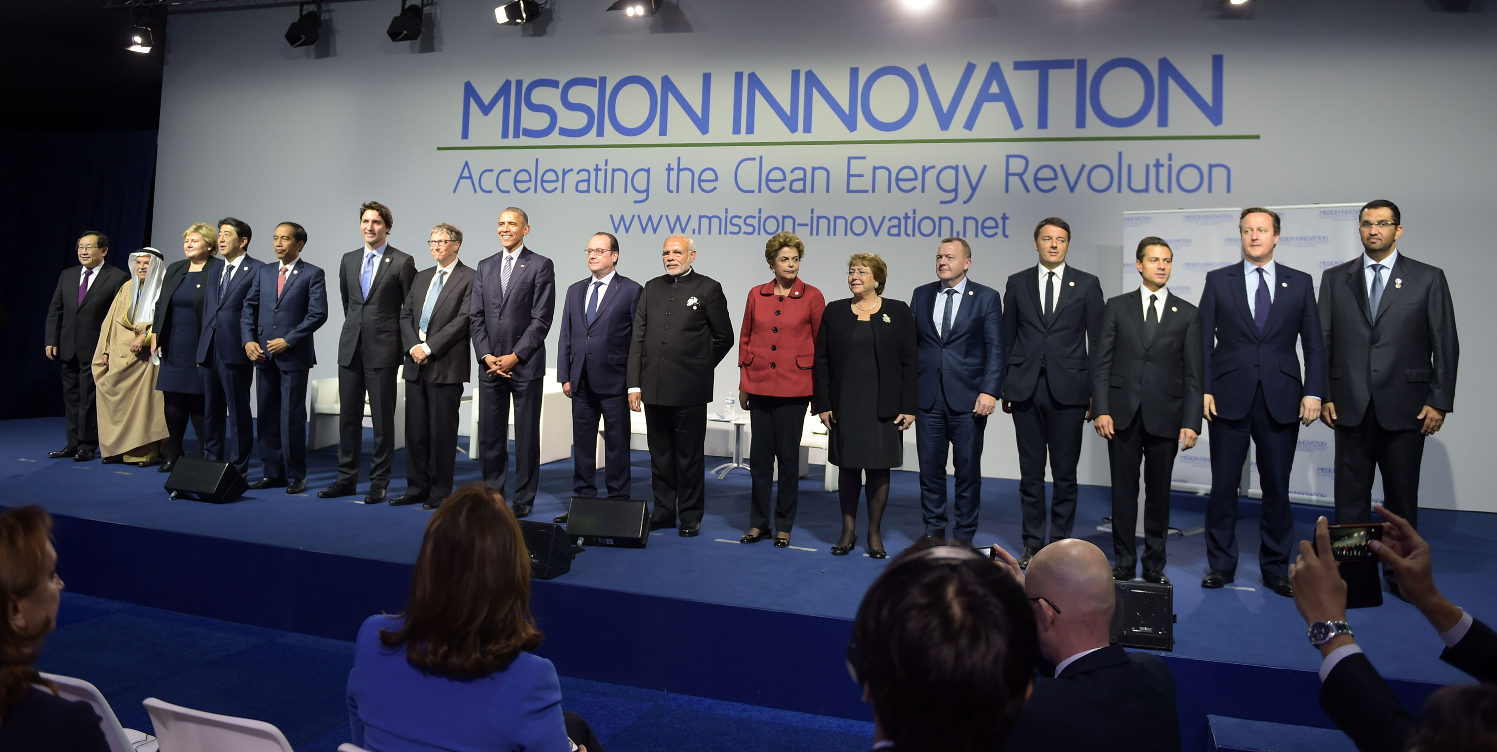 Conferencia de la ONU sobre Cambio Climático COP21